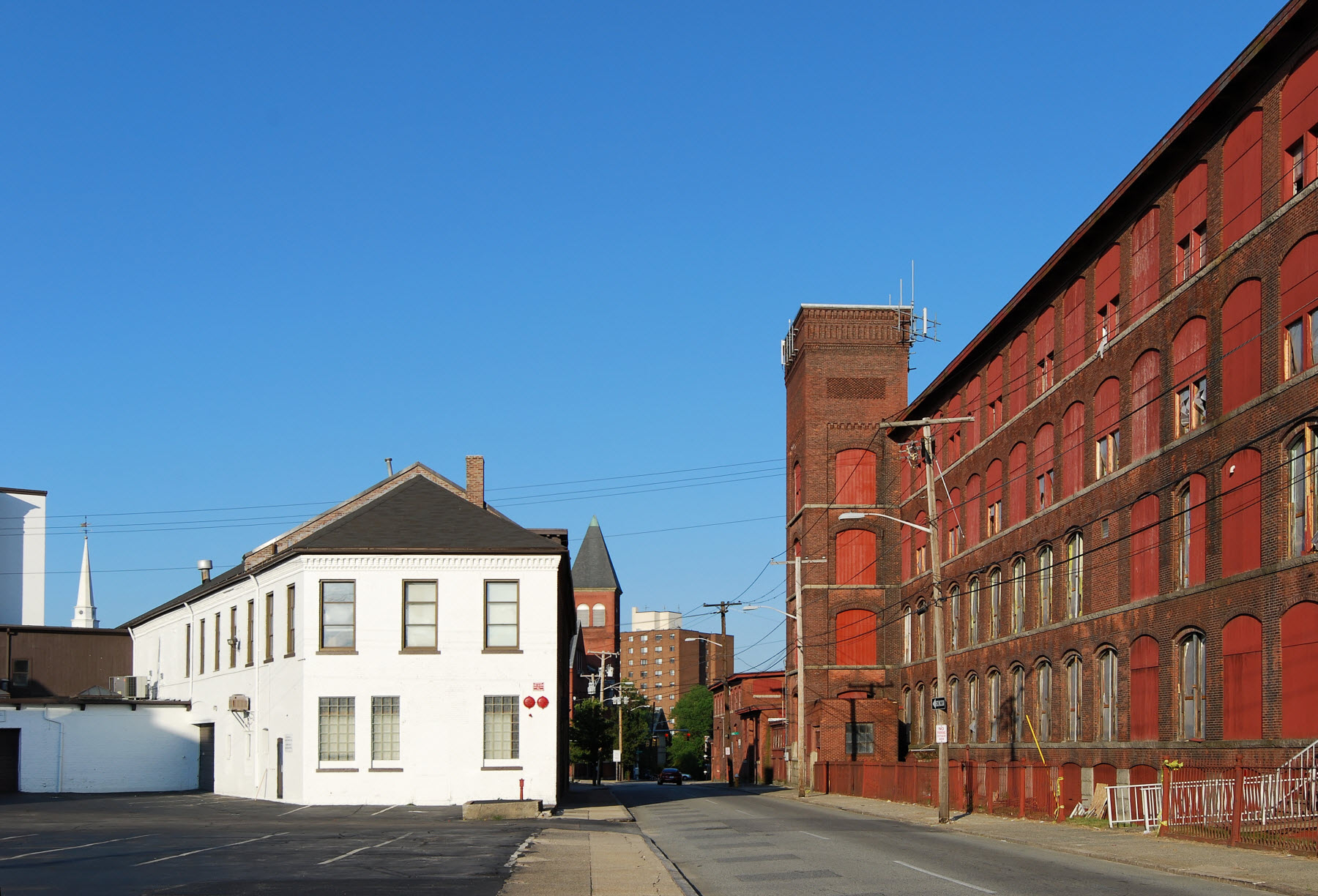 Church Street Pawtucket, with former Slater Cotton Mill on right. part of Church Hill Industrial District